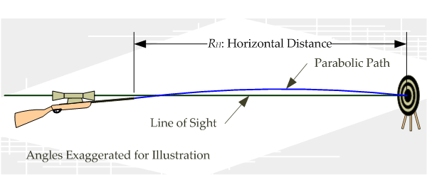 Illustration of a rifle showing the straight line of sight and the curved bullet path.